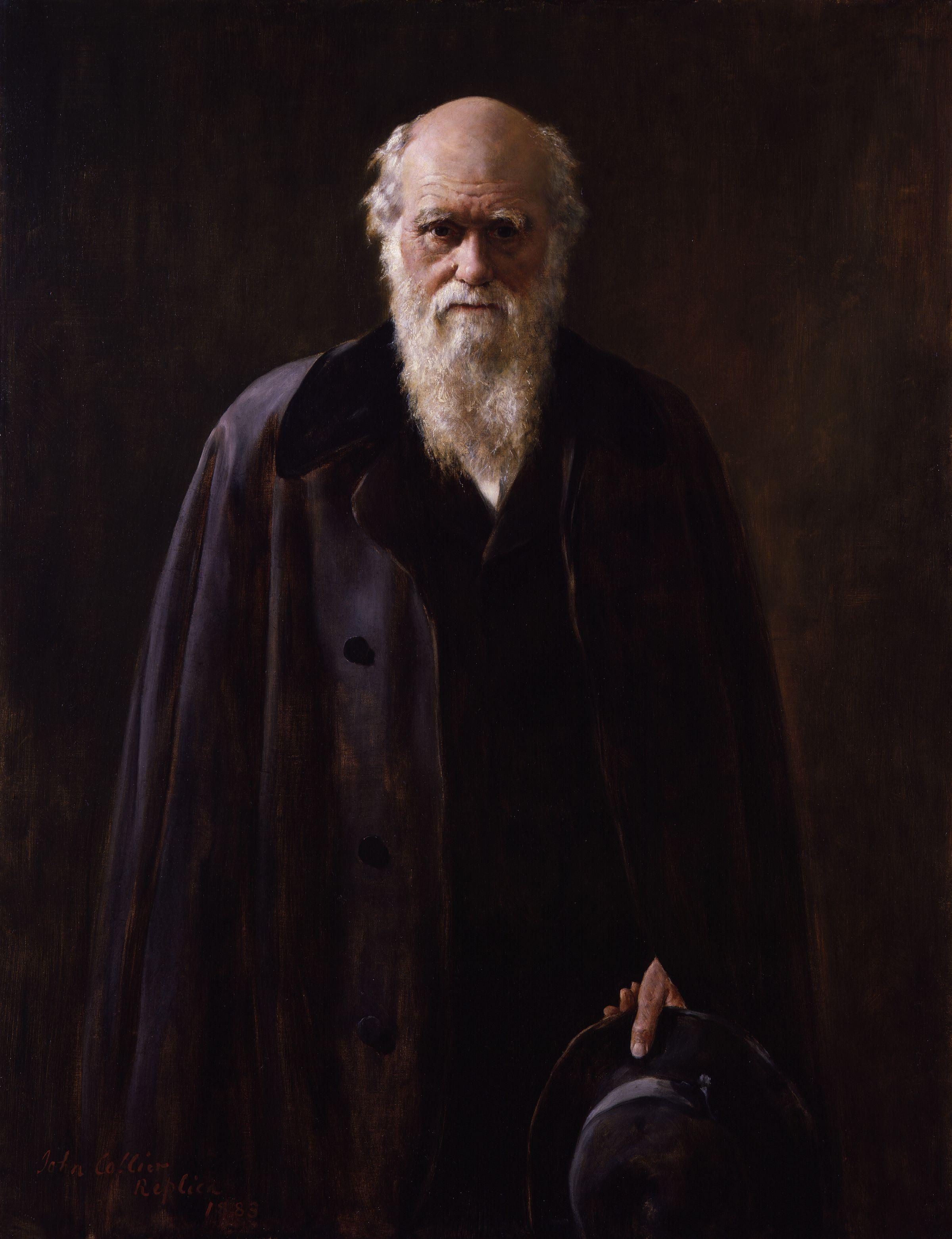 Charles Robert Darwin. A copy made by John Collier (1850-1934) in 1883 of his 1881 portrait of Charles Darwin. According to Darwin's son Erasmus, "The picture is a replica of the one in the rooms in the Linnaean Society and was made by Collier after the original. I took some trouble about it and as a likeness it is an improvement on the original." Given to the National Portrait Gallery, London in 1896.